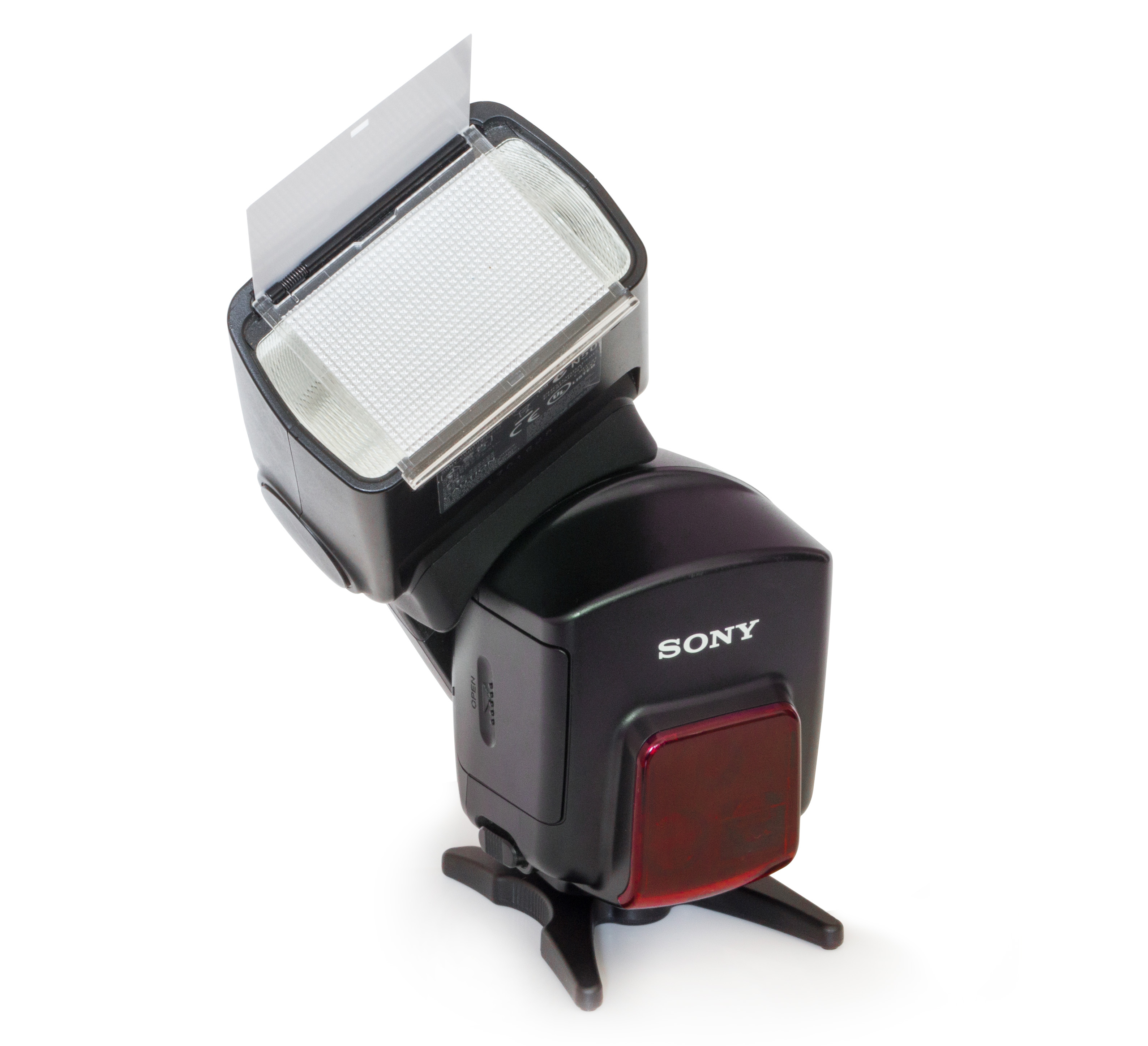 Sony Alpha HVL-F58AM flash - Quick Shift Bounce system allows directing flash at unusual angles. Over flashtube you can see build-in white bounce sheet and wide panel.